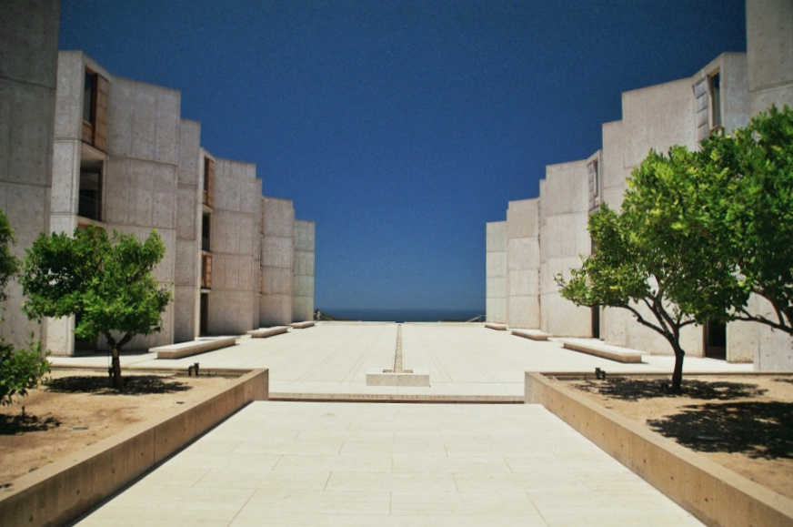 Courtyard axis — Jonas Salk Institute in La Jolla, California.